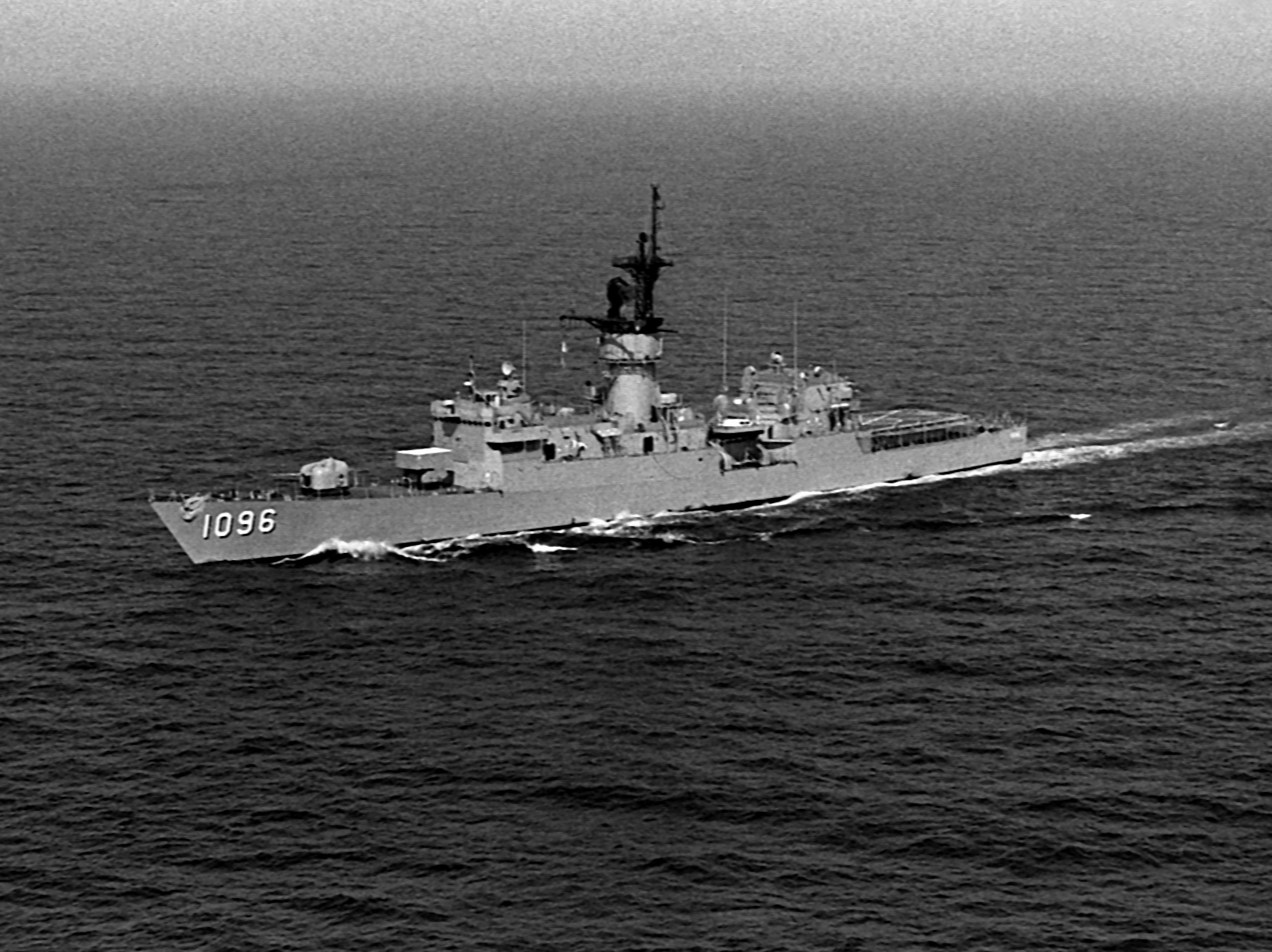 A port bow view of the frigate USS VALDEZ (FF-1096) underway. The VALDEZ, part of Task Group 6, was taking part in the transfer of Americans and third nation personnel from Juniyah, Lebanon, to Larnaca, Cyprus.